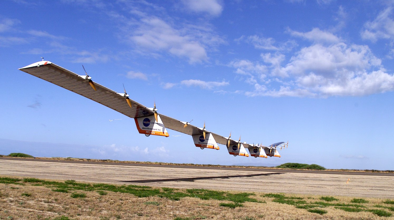 Collection: NASA Image eXchange Collection Title: The Helios Prototype flying wing is shown moments after takeoff, beginning its first test flight on Description: The solar-electric Helios Prototype flying wing is shown moments after takeoff, beginning its first test flight on solar power from the U.S. Navy's Pacific Missile Range Facility on Kauai, Hawaii, July 14, 2001. The 18-hour flight was a functional checkout of the aircraft's systems and performance in preparation for an attempt to reach sustained flight at 100,000 feet altitude later this summer. Date: 07.14.2001 Credit: NASA Dryden Flight Research Center (NASA-DFRC) ID: ED01-0209-1 UID: SPD-NIX-ED01-0209-1 Original url: SOURCE: Visit for the most comprehensive compilation of NASA stills, film and video, created in partnership with Internet Archive.